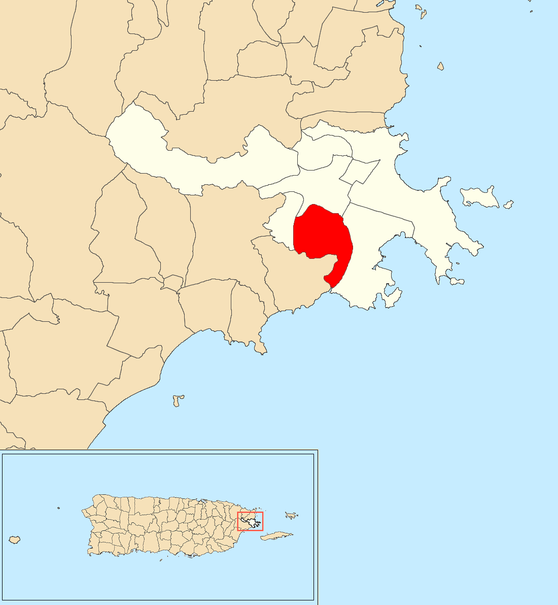 Quebrada Seca, Ceiba, Puerto Rico locator map